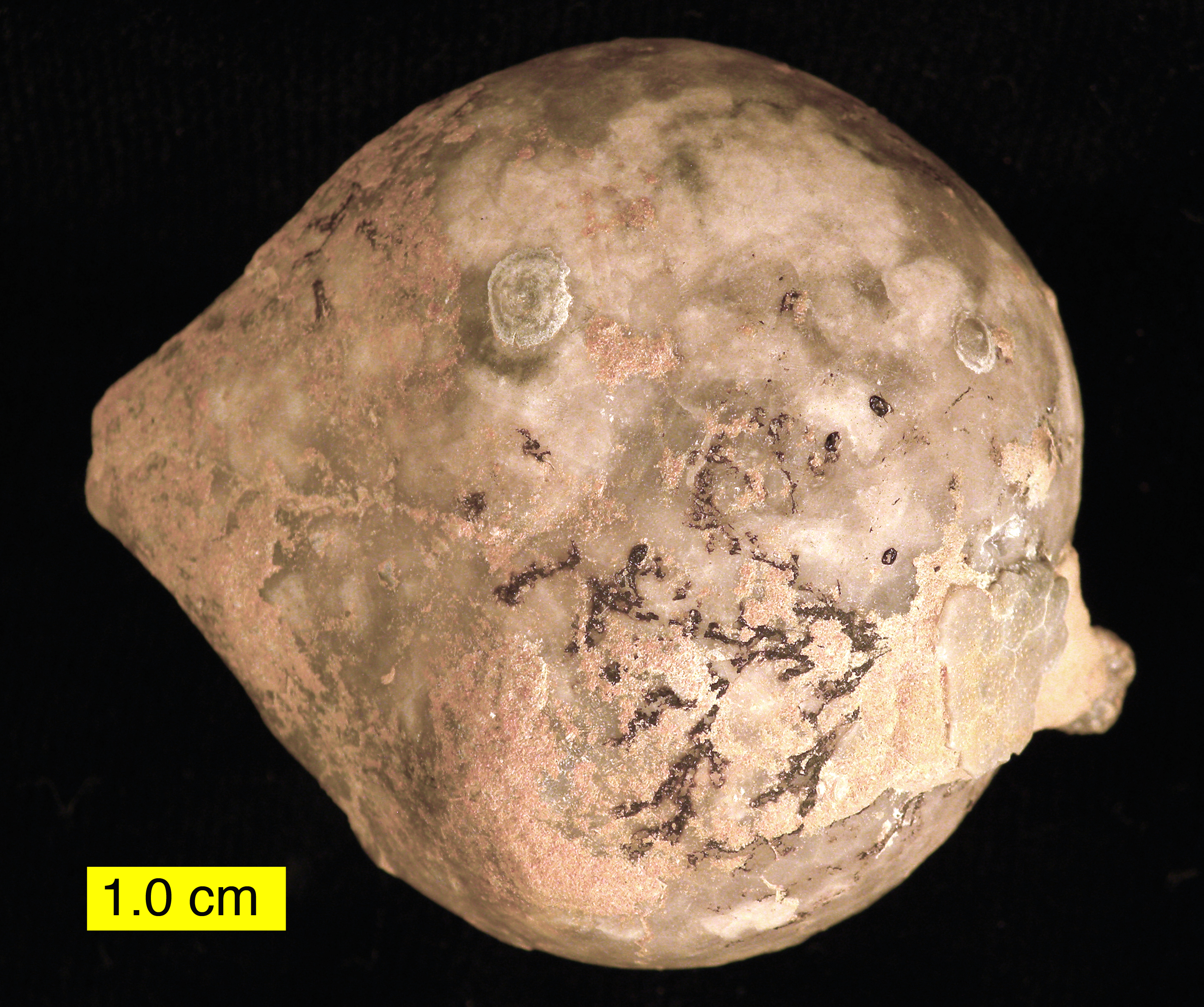 Encrusting graptolite (Thallograptus sphaericola) on the cystoid Echinosphaerites aurantium (Middle Ordovician, northeastern Estonia).